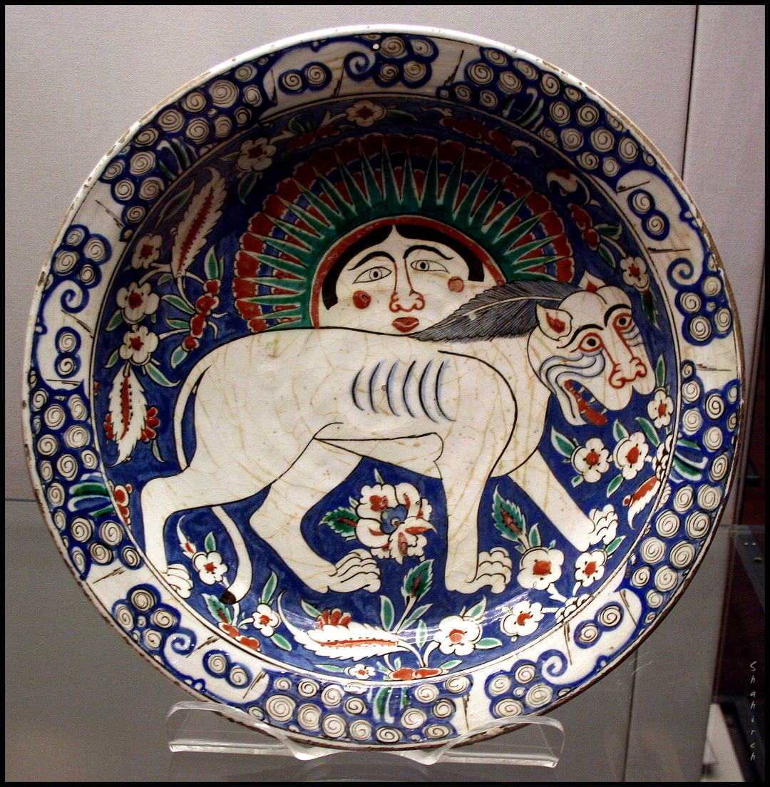 The Lion and Sun Plate in British Museum, UK